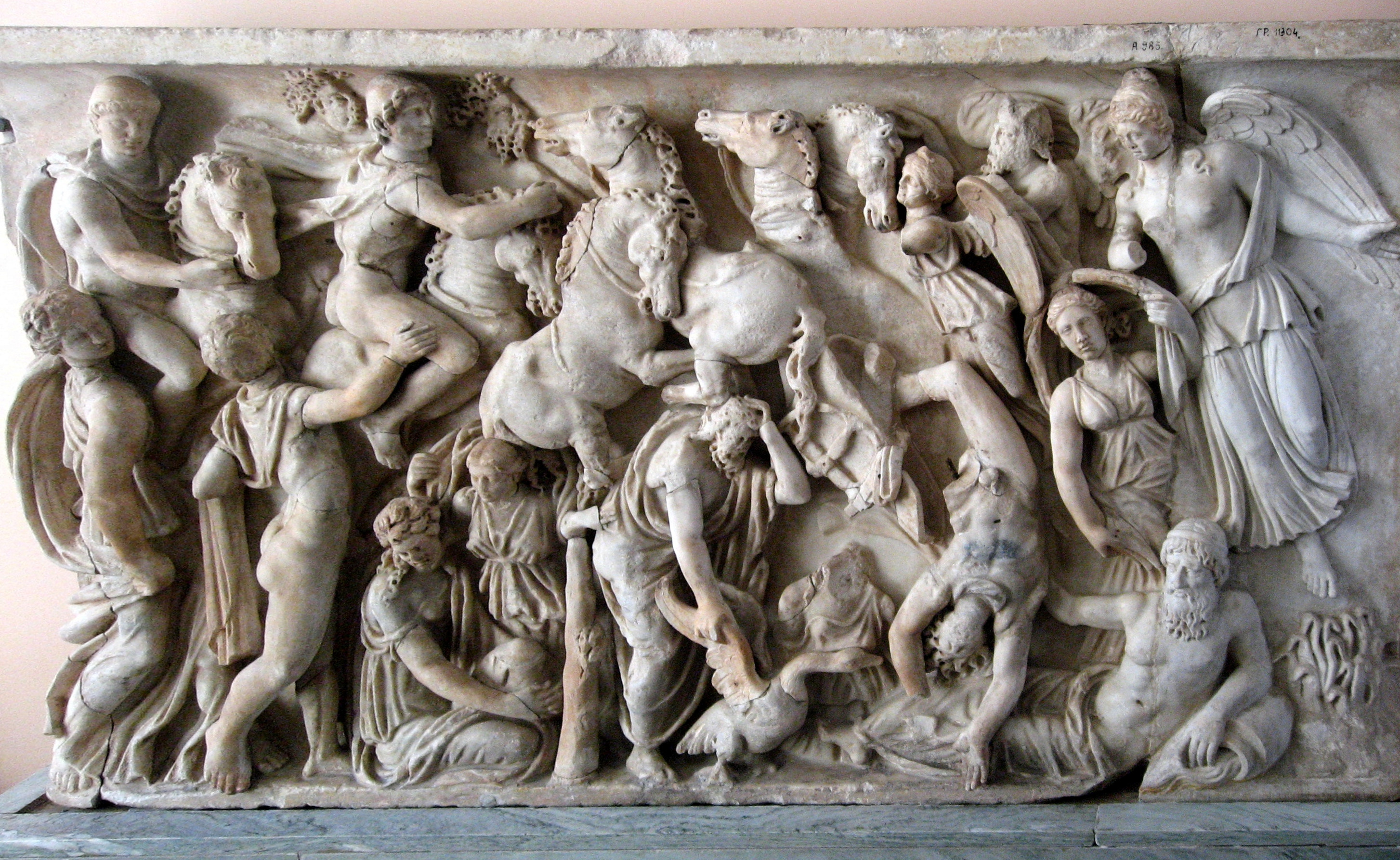 The fall of Phaeton. Ancient sarcophagus at the Hermitage, in Saint Petersburg.